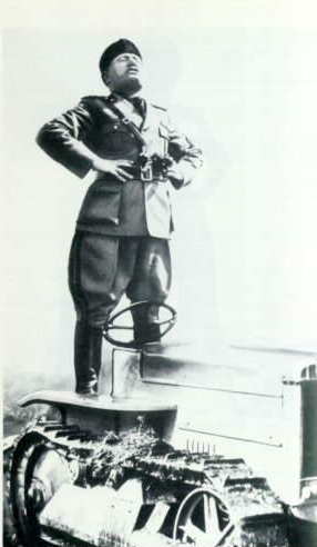 Mussolini standing upon a Caterpillar symbolic of Italian move towards autarky and the Battle for Grain.